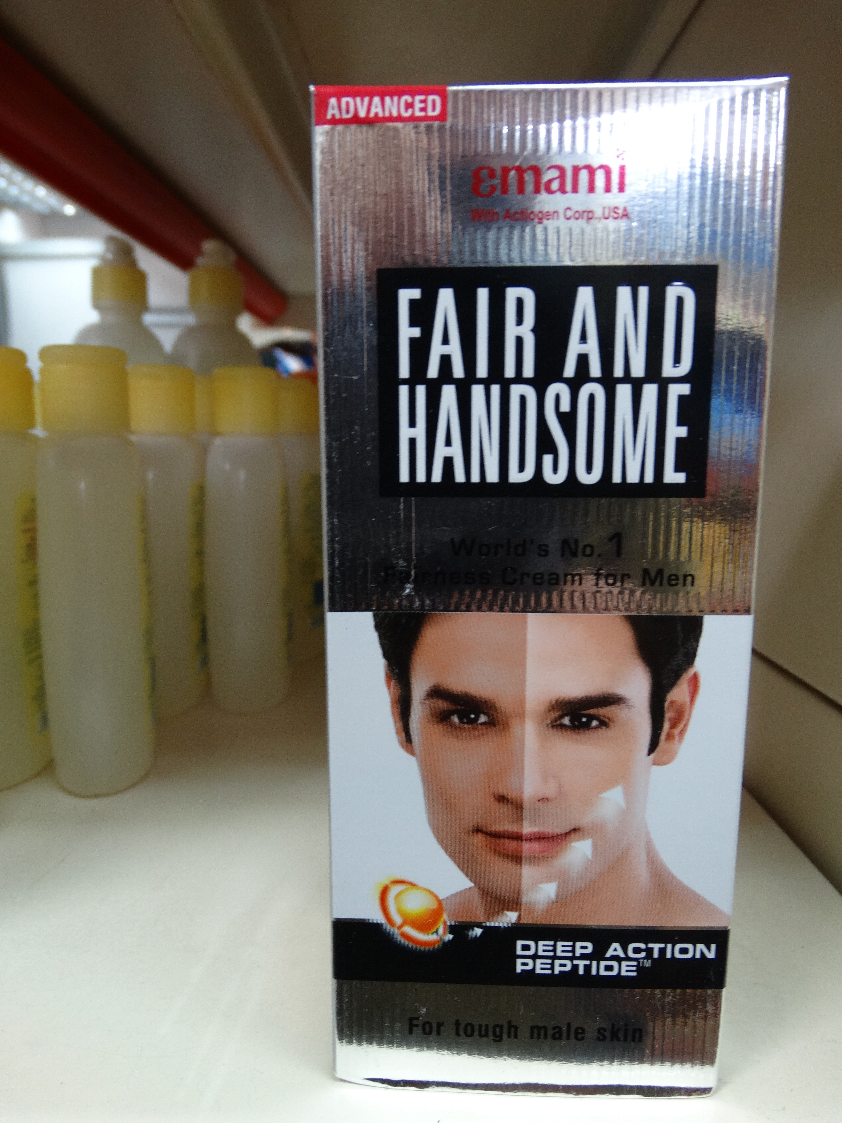 Fair and Handsome - Skin-Whitening Product in Supermarket - Bandarawela - Hill Country - Sri Lanka